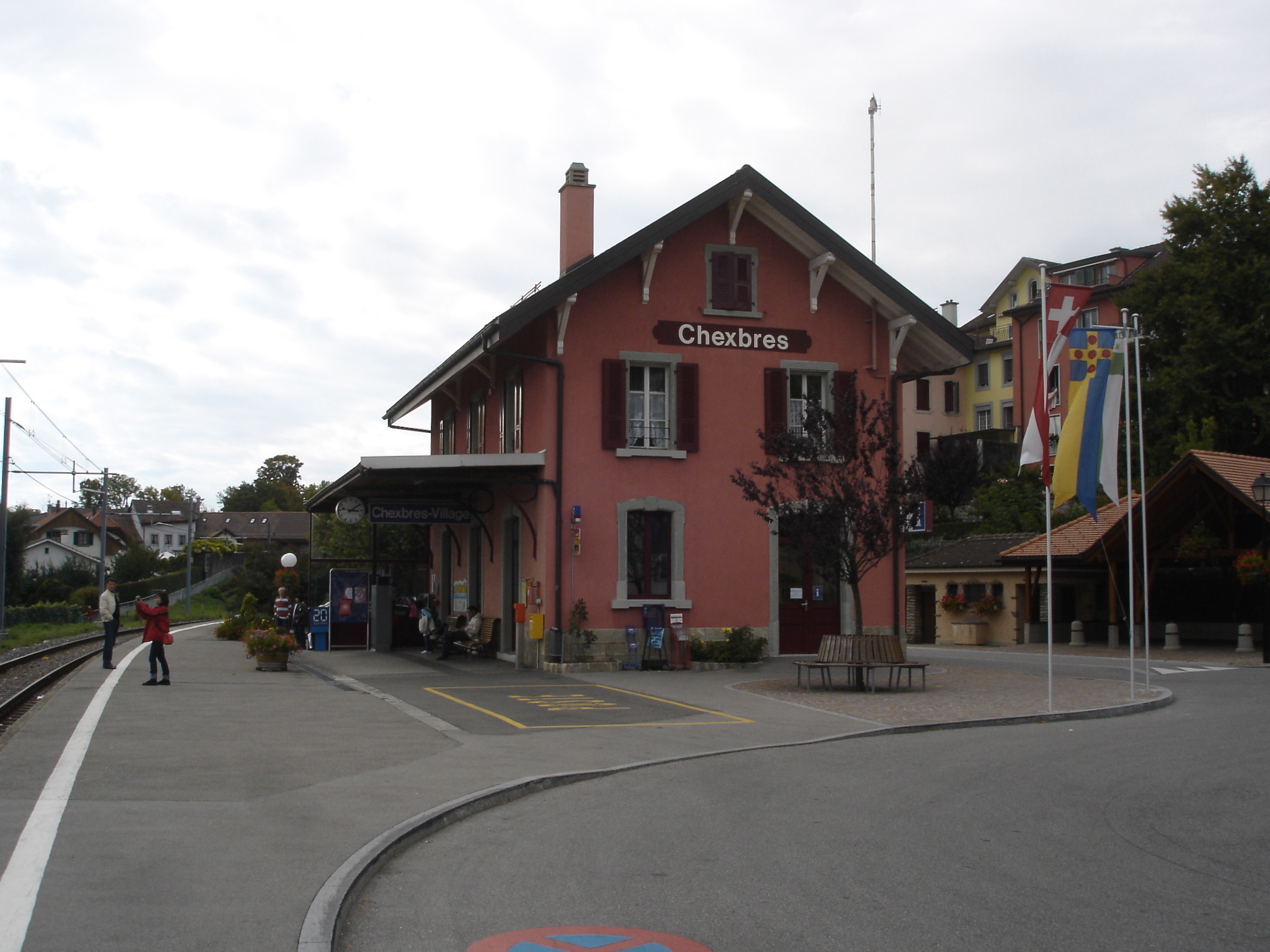 Chexbres-Villages train station.